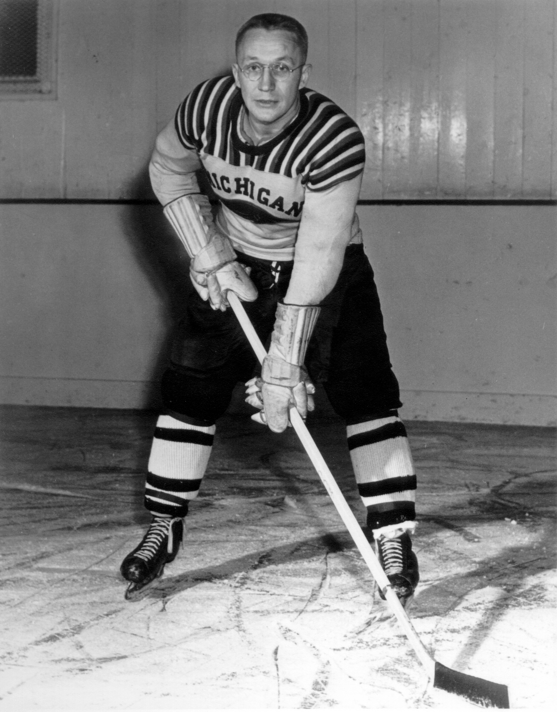 Photograph of 1947–48 Michigan Wolverines men's ice hockey team captain Connie Hill This work is in the public domain in that it was published in the United States between 1923 and 1977 and without a copyright notice. Unless its author has been dead for several years, it is copyrighted in jurisdictions that do not apply the rule of the shorter term for US works, such as Canada (50 p.m.a.), Mainland China (50 p.m.a., not Hong Kong or Macao), Germany (70 p.m.a.), Mexico (100 p.m.a.), Switzerland (70 p.m.a.), and other countries with individual treaties. See this page for further explanation.